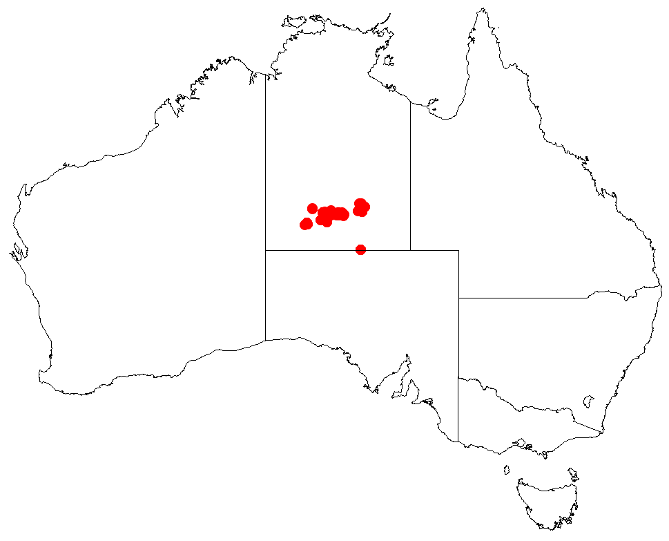 Macrozamia macdonnellii occurrence data downloaded from Australasian Virtual Herbarium using